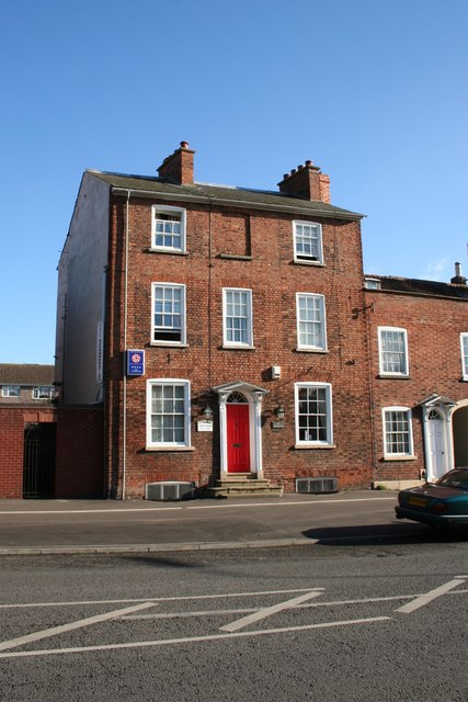 The Red House. Early 19th century house on North Parade, now a B&B.